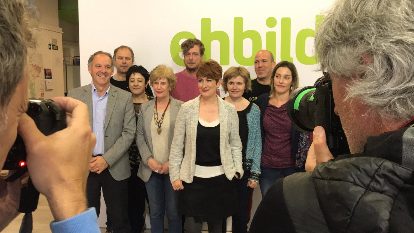 Bakartxo Ruiz presented as the EH Bildu candidate for 2019 Navarre Parliament election